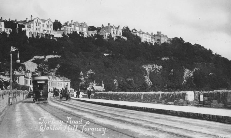 A tram car heading along the sea front towards Torquay. There is no overhead cabling as it was powered by the Doulter stud system until 1911 - one of the studs can be seen beneath the letter 'Y' in the postcard's caption.